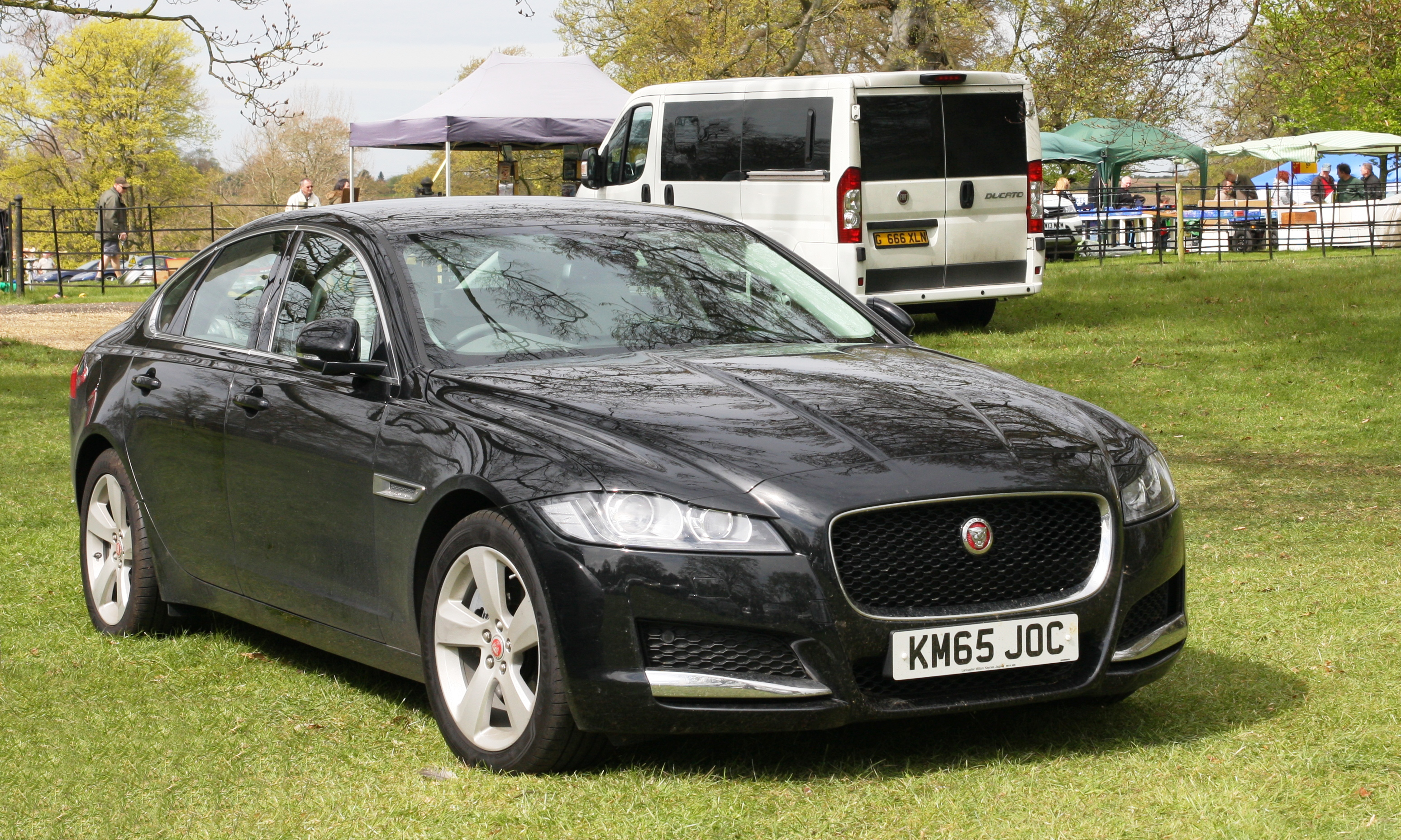 Jaguar XF in Bedfordshire The license plate has been changed for anonymisation purposes. The year code remains correct, however